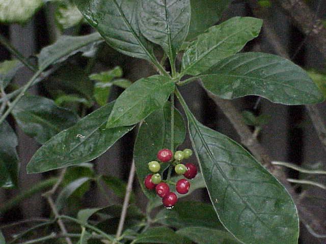 Species: Cephaelis acuminata Family: Rubiaceae Image No. 2